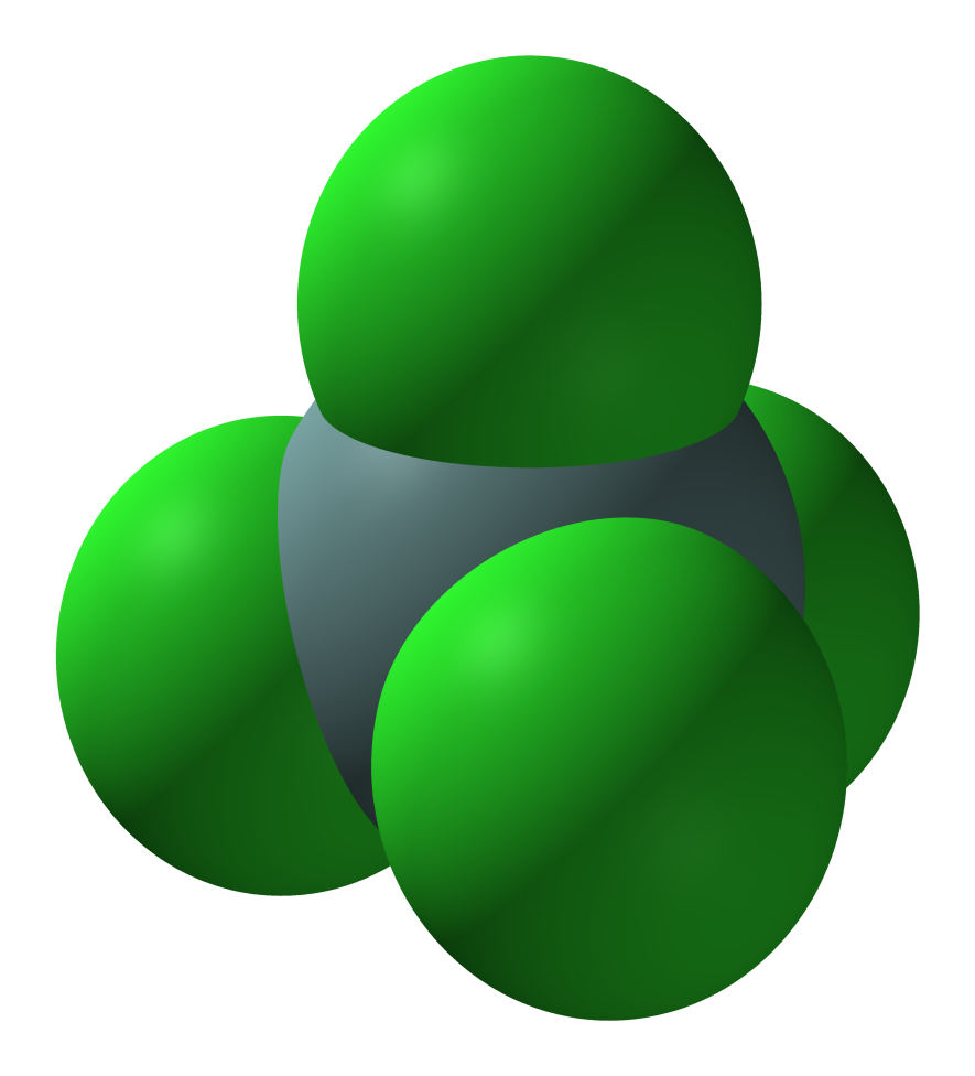 Space-filling model of the germanium tetrachloride molecule, GeCl4, from the crystal structure. Structural data from Acta Cryst., 2002, C58, i101-i102.